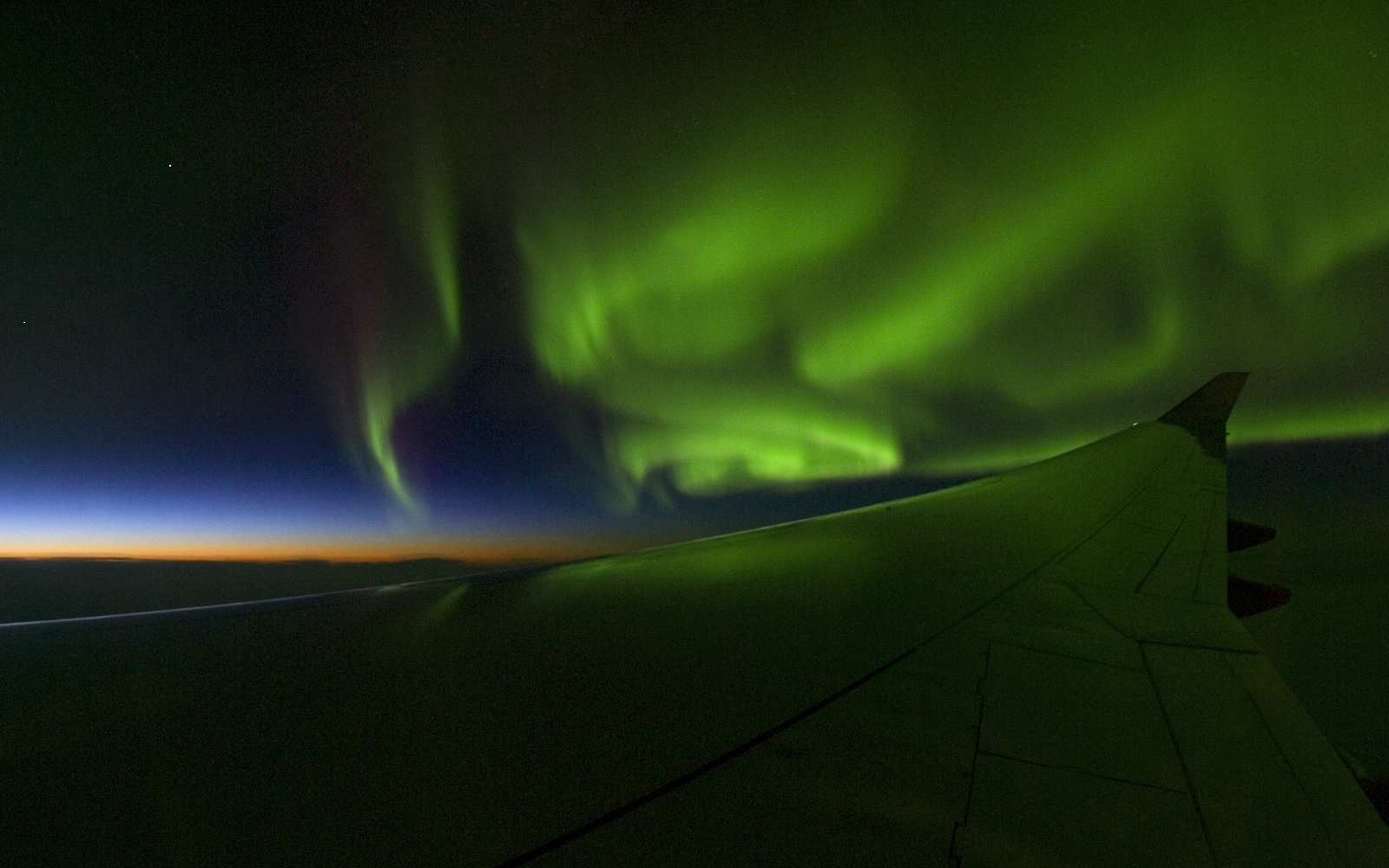 Aurora Borealis as seen from 11,000m (36,000 feet) above Canada on 22 January 2004